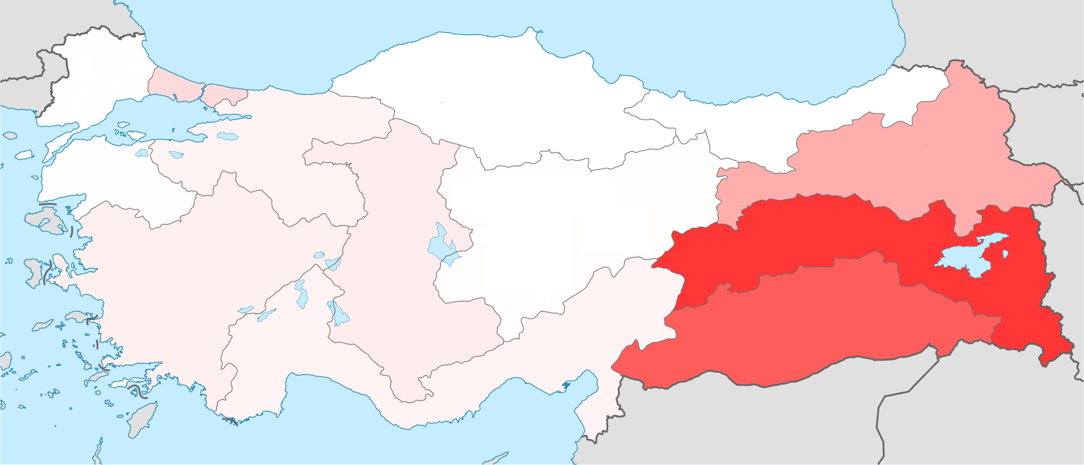 Map showing the percentage of Kurdish population in each of the statistical regions of Turkey. Source: Kürt Meselesi̇ni̇ Yeni̇den Düşünmek (July 2010), pp. 19-20.